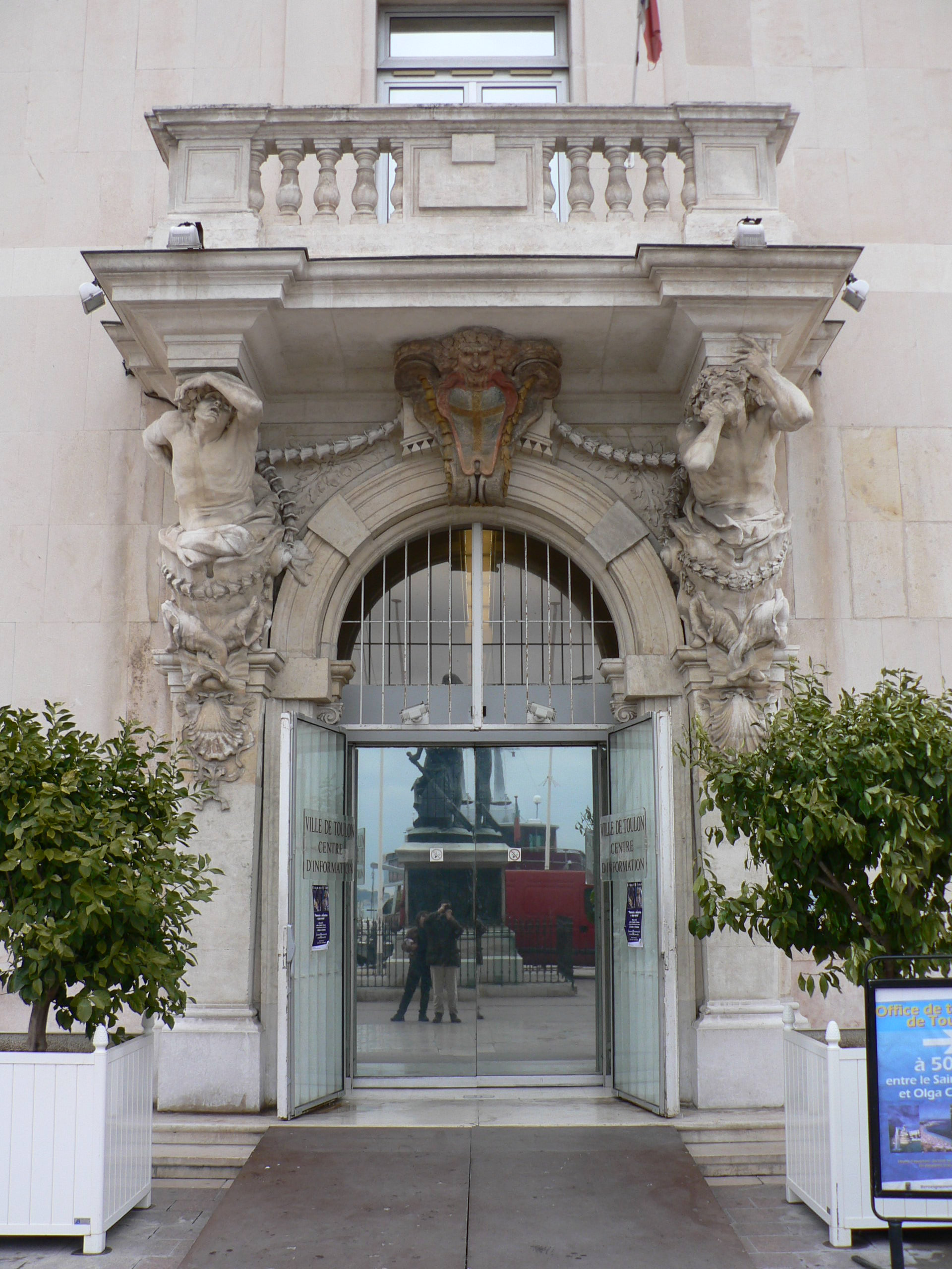 Caryatids sculpted by Pierre Puget, now at the main entrance of the Toulon City Hall